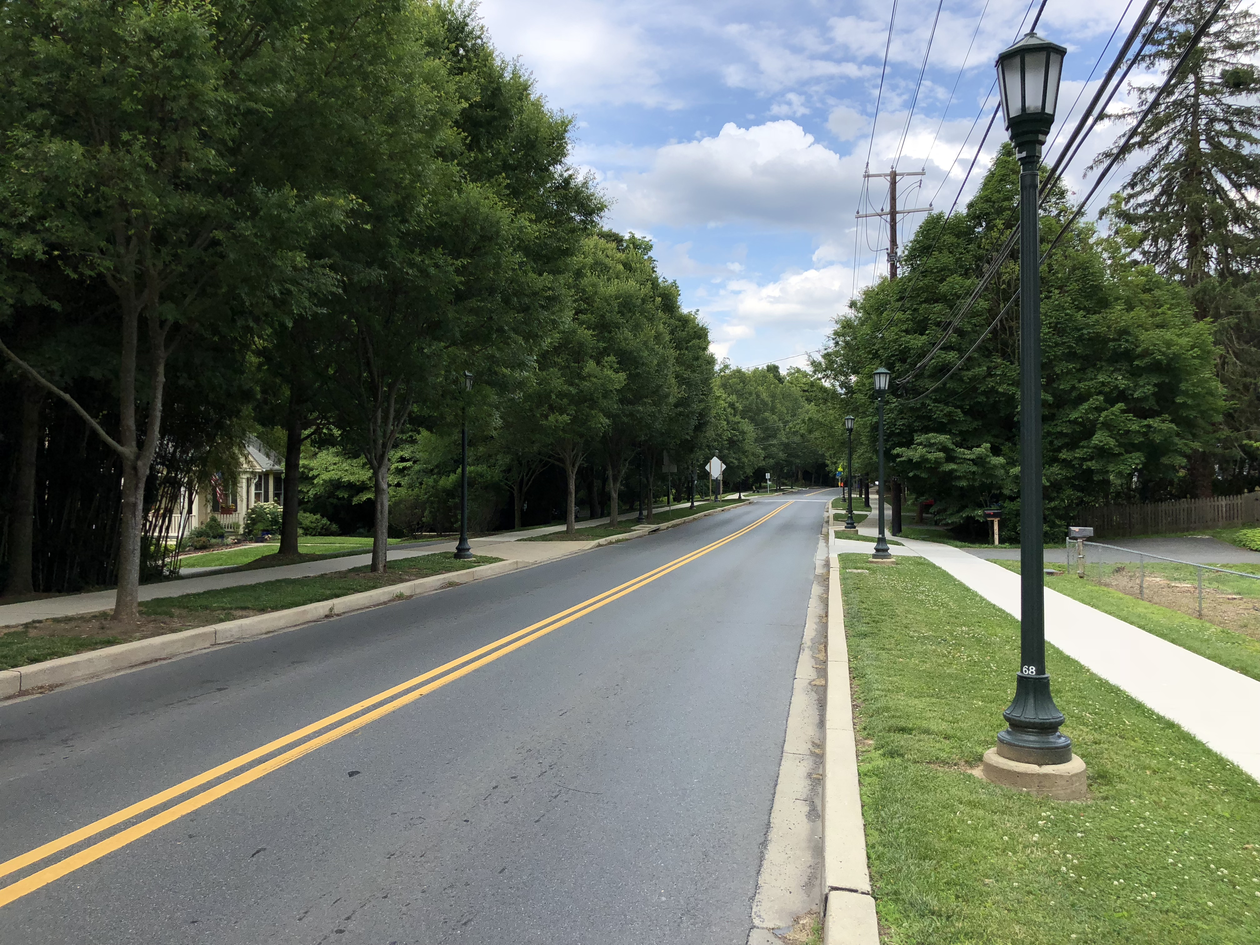 View east along Maryland State Route 547 (Strathmore Avenue) at Kenilworth Avenue in Garrett Park, Montgomery County, Maryland